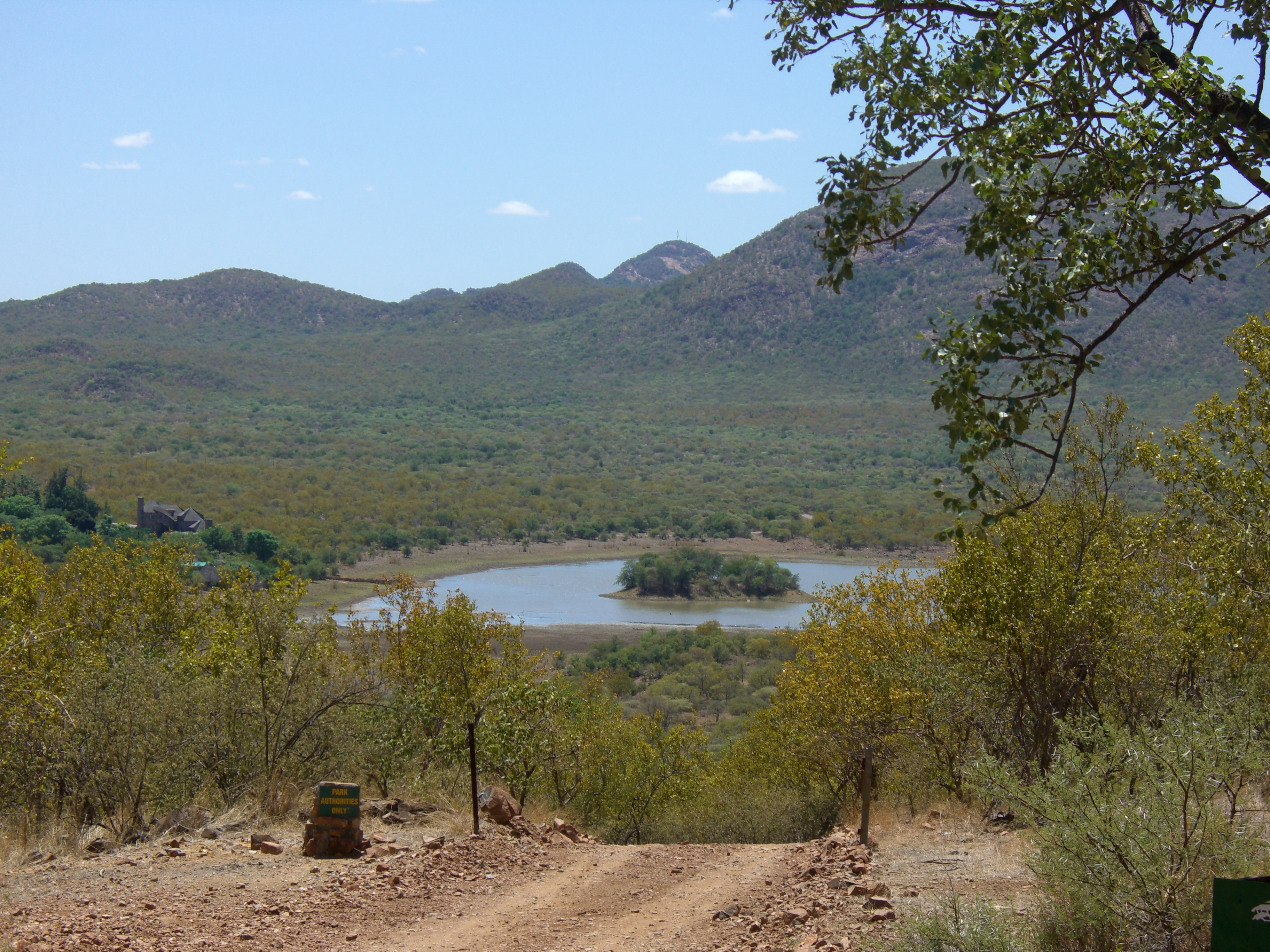 The view at Mokolodi Nature Reserve